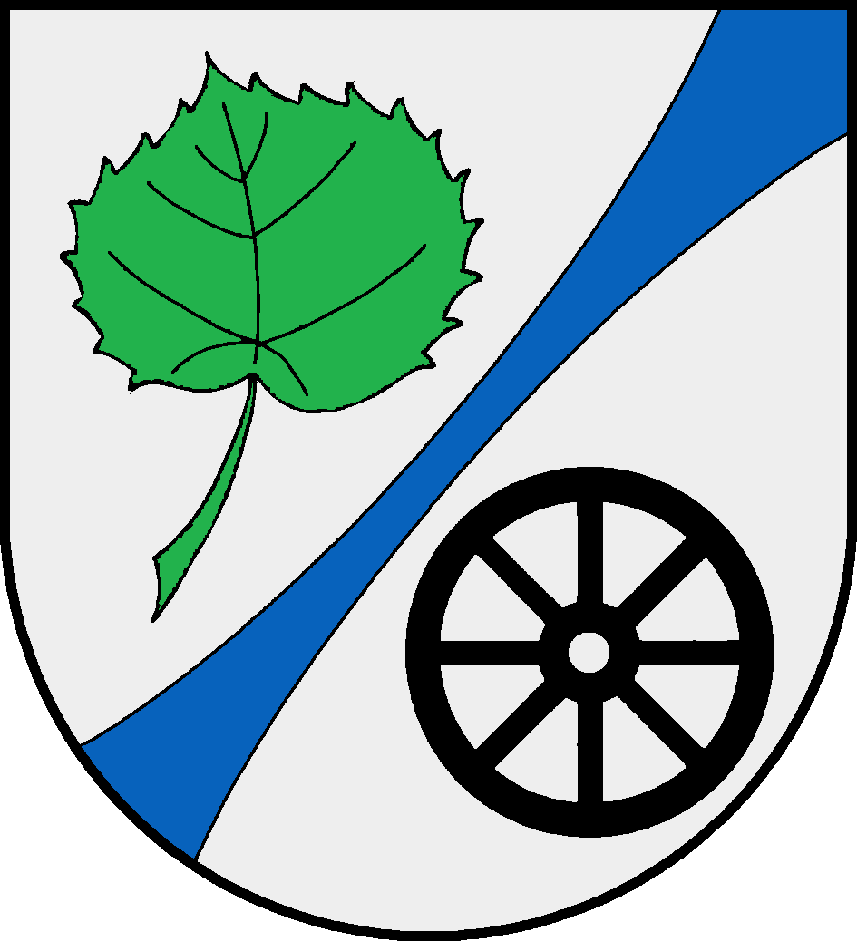 Coat of arms of the municipality Schackendorf in Schleswig-Holstein, Germany.